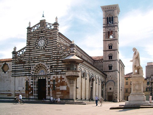 Prato, the Duomo